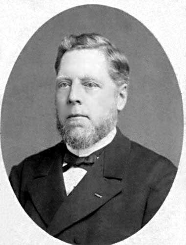 Lodewijk Willem Ernst Rauwenhoff (1828-1889) Dutch Reformed theologian and church historian